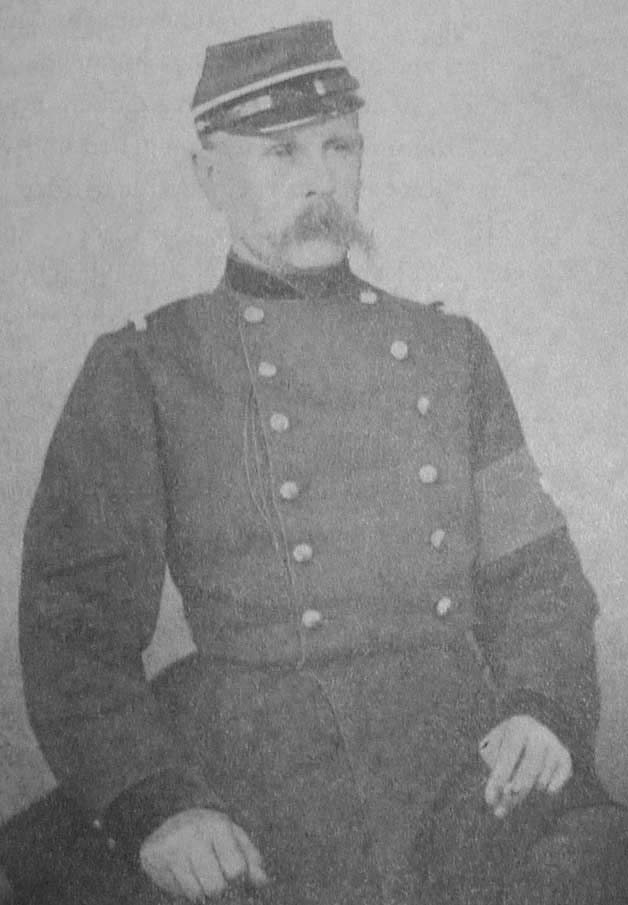 Louis Jent, first publisher of the Swiss newspaper Der Bund